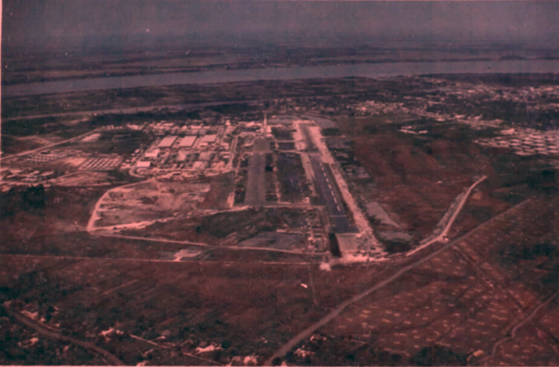 Aerial view of Can Tho looking north. Three companies of the 69th Engineer Battalion are working on the cantonment, aircraft support facilities and a 2000 KW power plant.